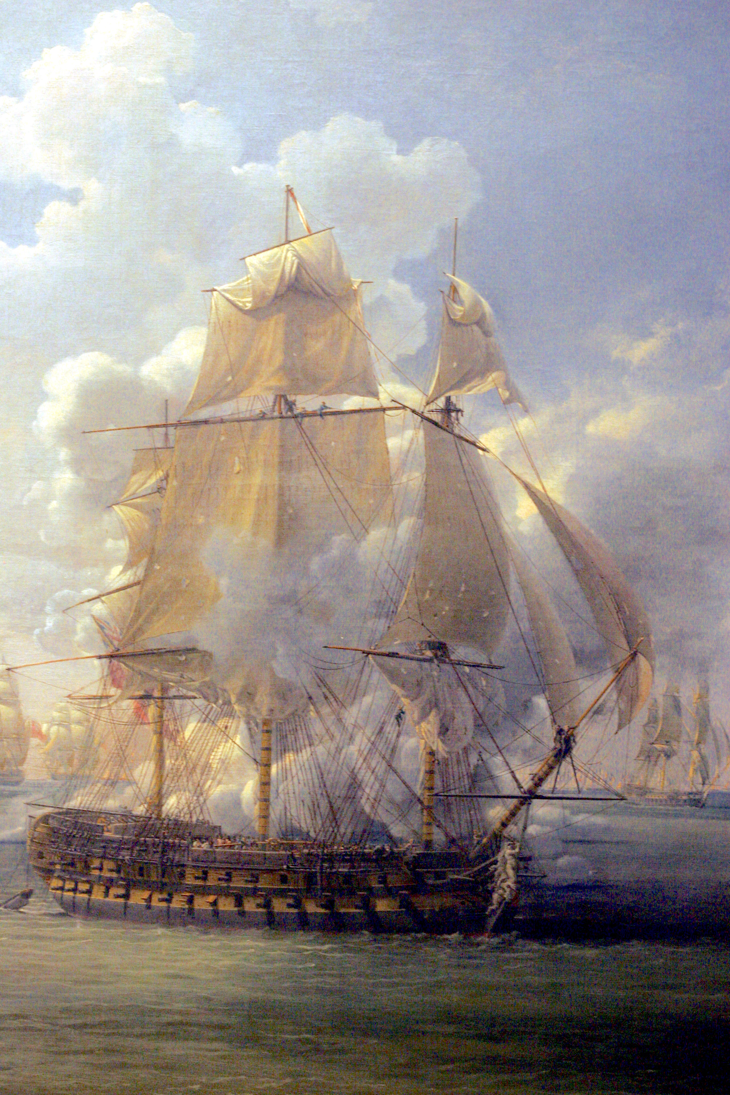 HMS Hercules, a detail of a larger canvas: Combat de la Poursuivante contre l'Hercule, 1803 ("Fight of the Poursuivante against the Hercules", 1803). Which shows the French frigate Poursuivante raking the British ship HMS Hercules, in the action of 28 June 1803.